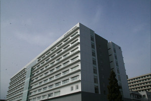 Hospital of Hamamatsu University School of Medicine Hamamatsu-city Shizuoka Japan